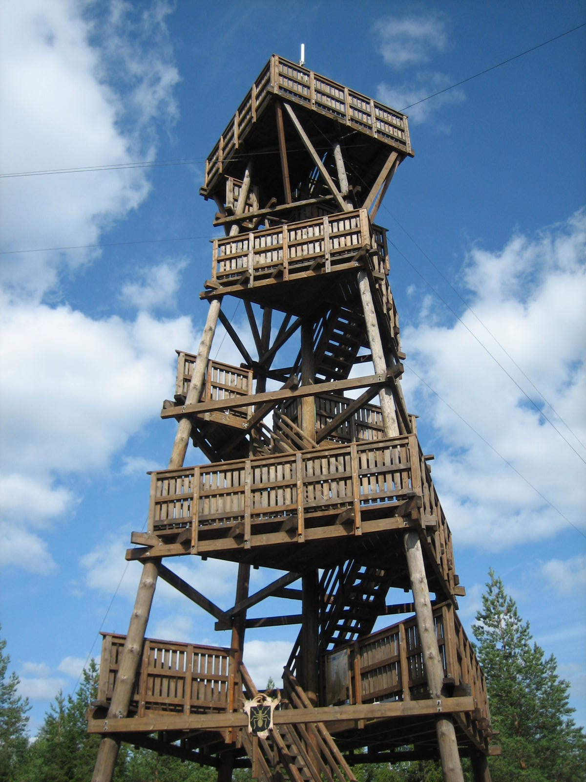 Kiiskilänmäki observation tower in Multia, Finland